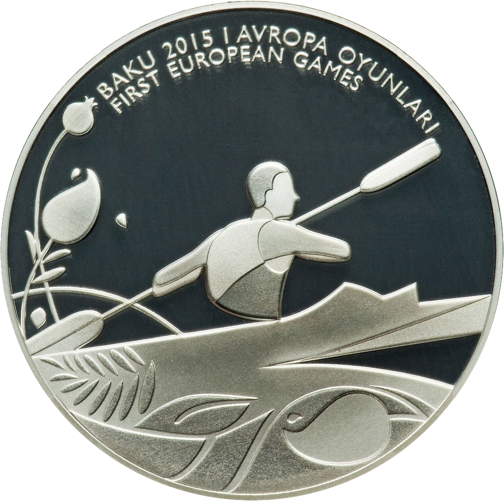 Commemorative coin of Azerbaijan